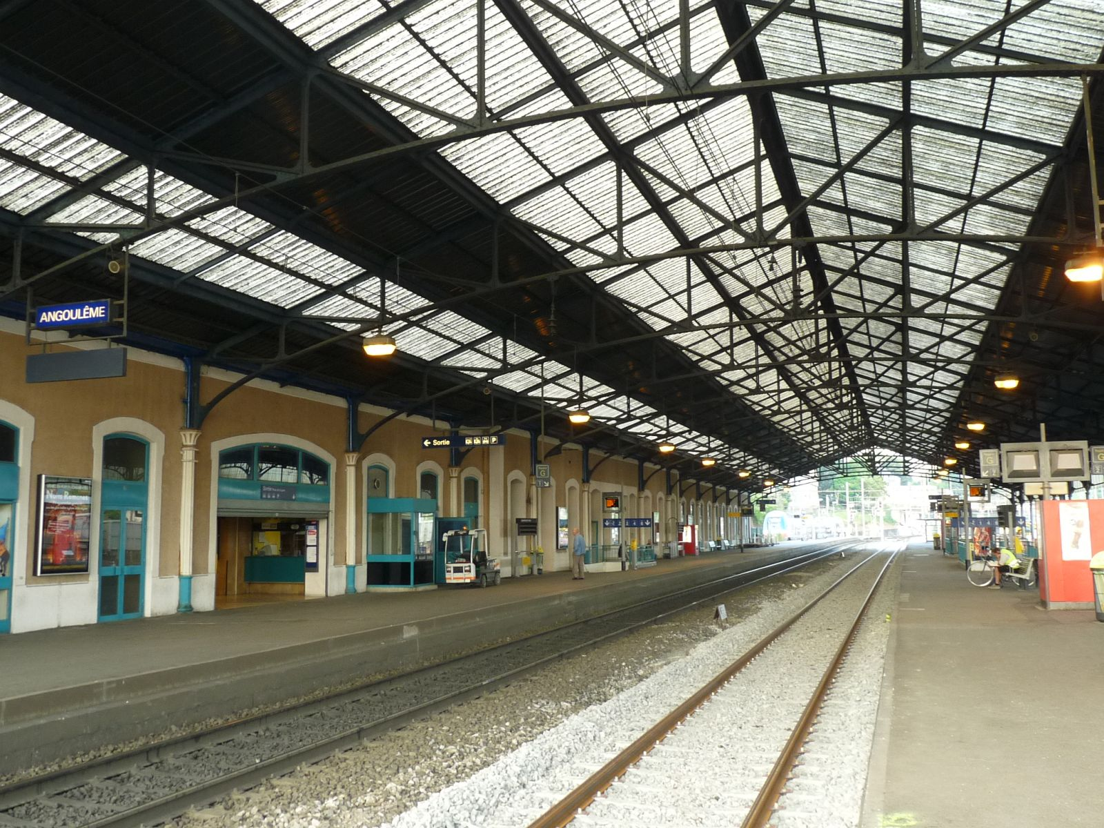 Station of Angoulême, Charente, SW France